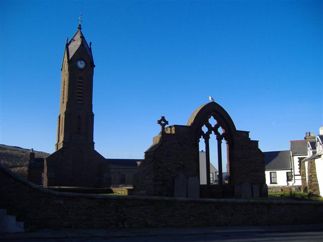 Ruins of St. Peter's Church, Peel. Mainly demolished in 1958 for safety reasons